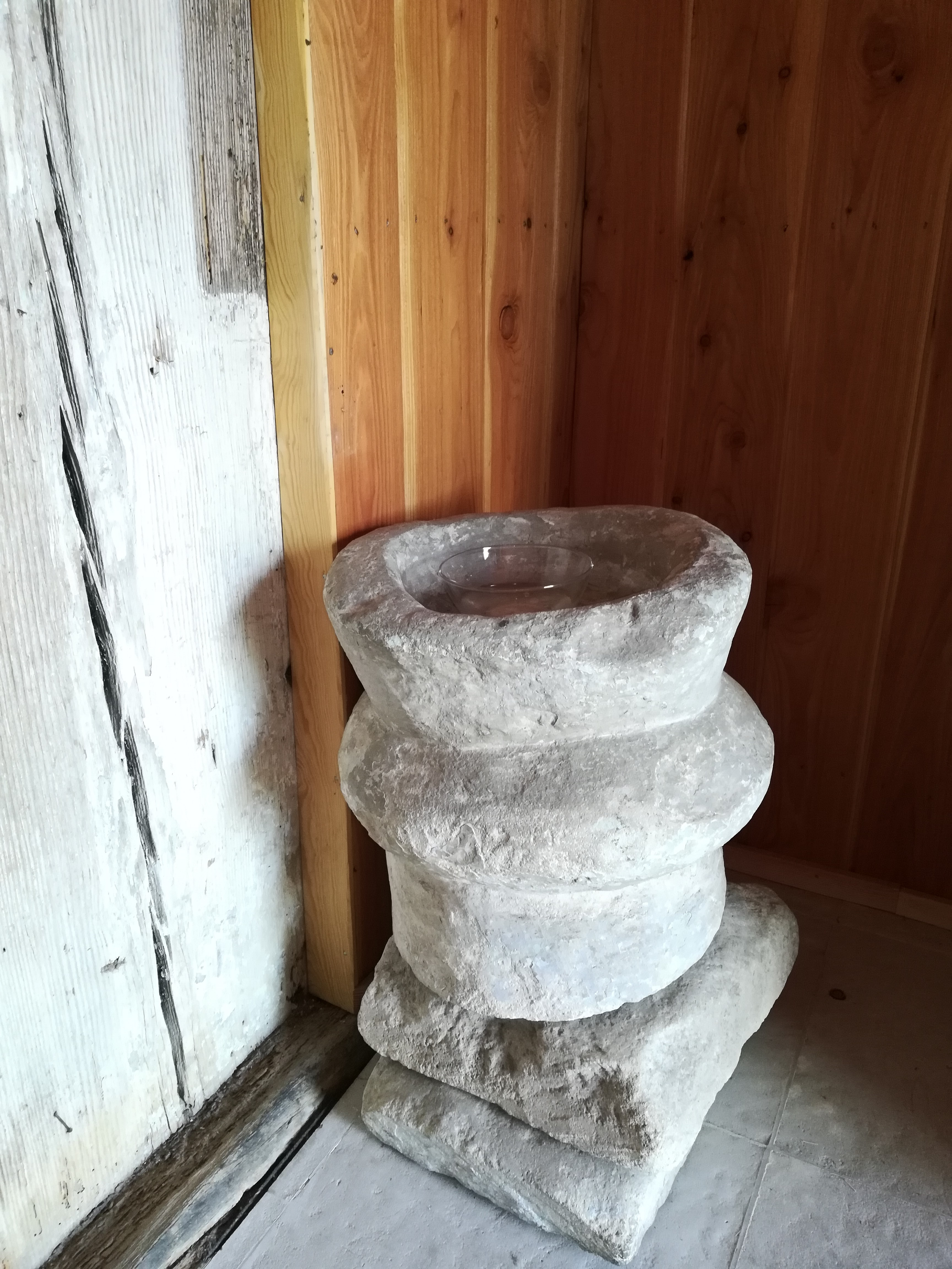 Church of Saint. Stanisław Biskupa in Chotelek Zielony - a stone goblet in the porch.